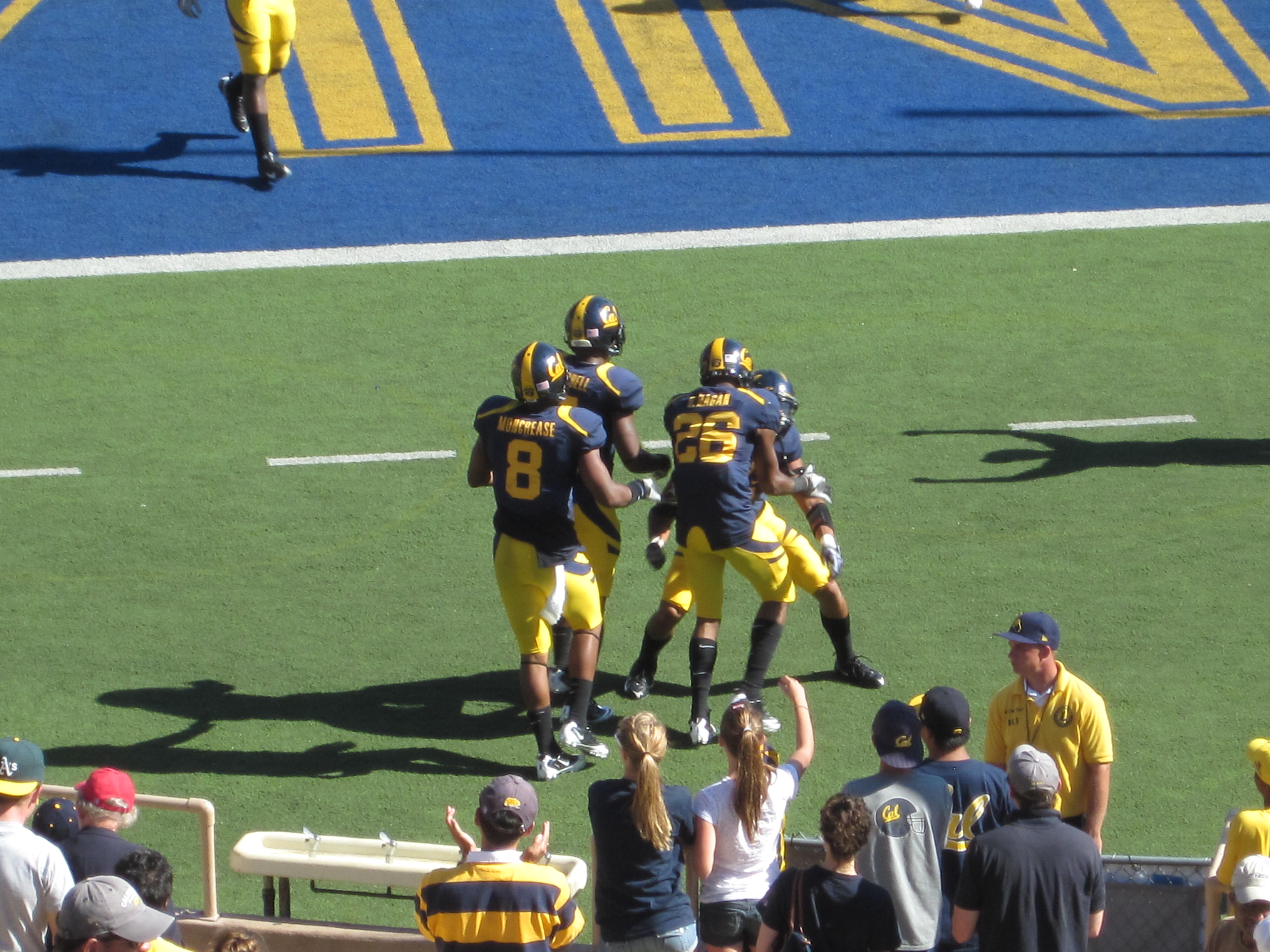 Cal players celebrate defenseive back Darian Hagan's touchdown off an interception return during a home game against the Colorado Buffaloes. The Golden Bears won 52-7.